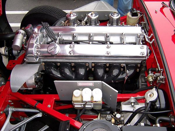 Jaguar XK6 engine in a Jaguar E-Type. Captioned As {}